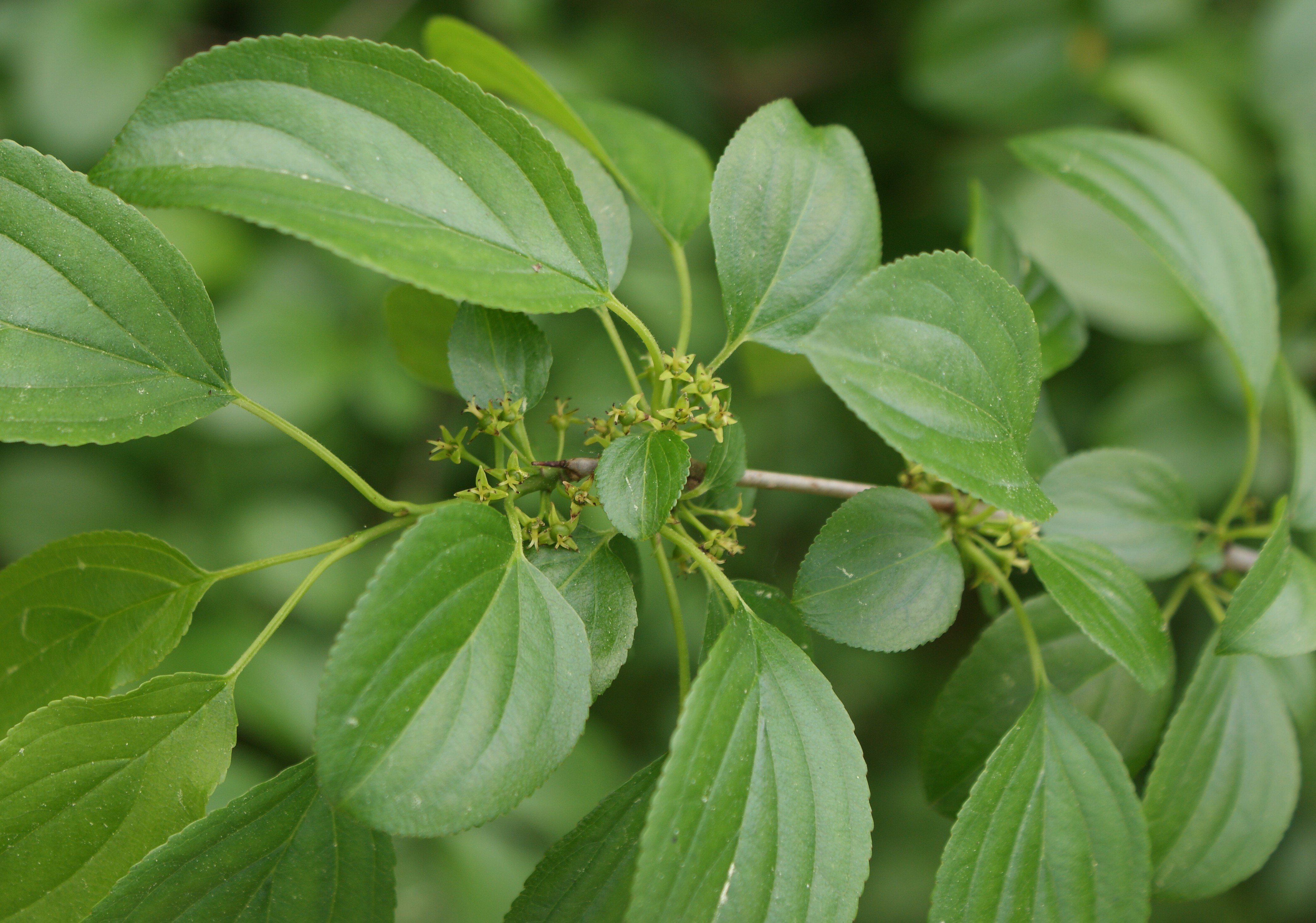 Rhamnus cathartica, flowers and leaves. Niechorze (NW Poland)